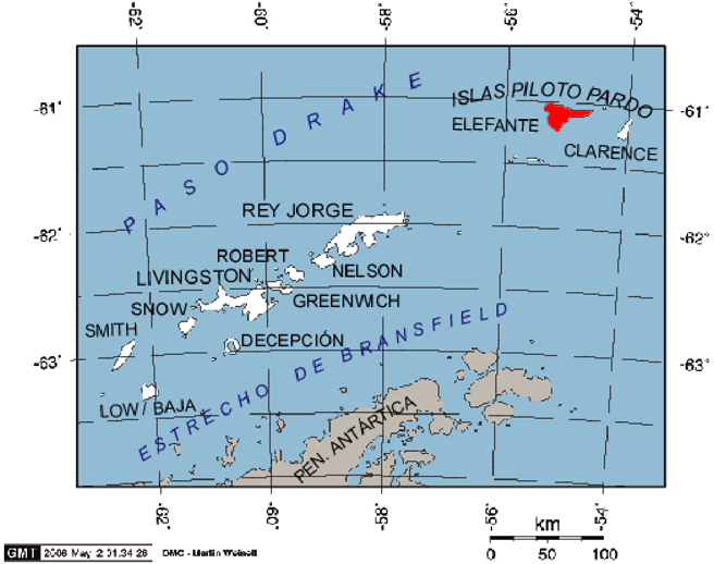 Location of Elephant Island